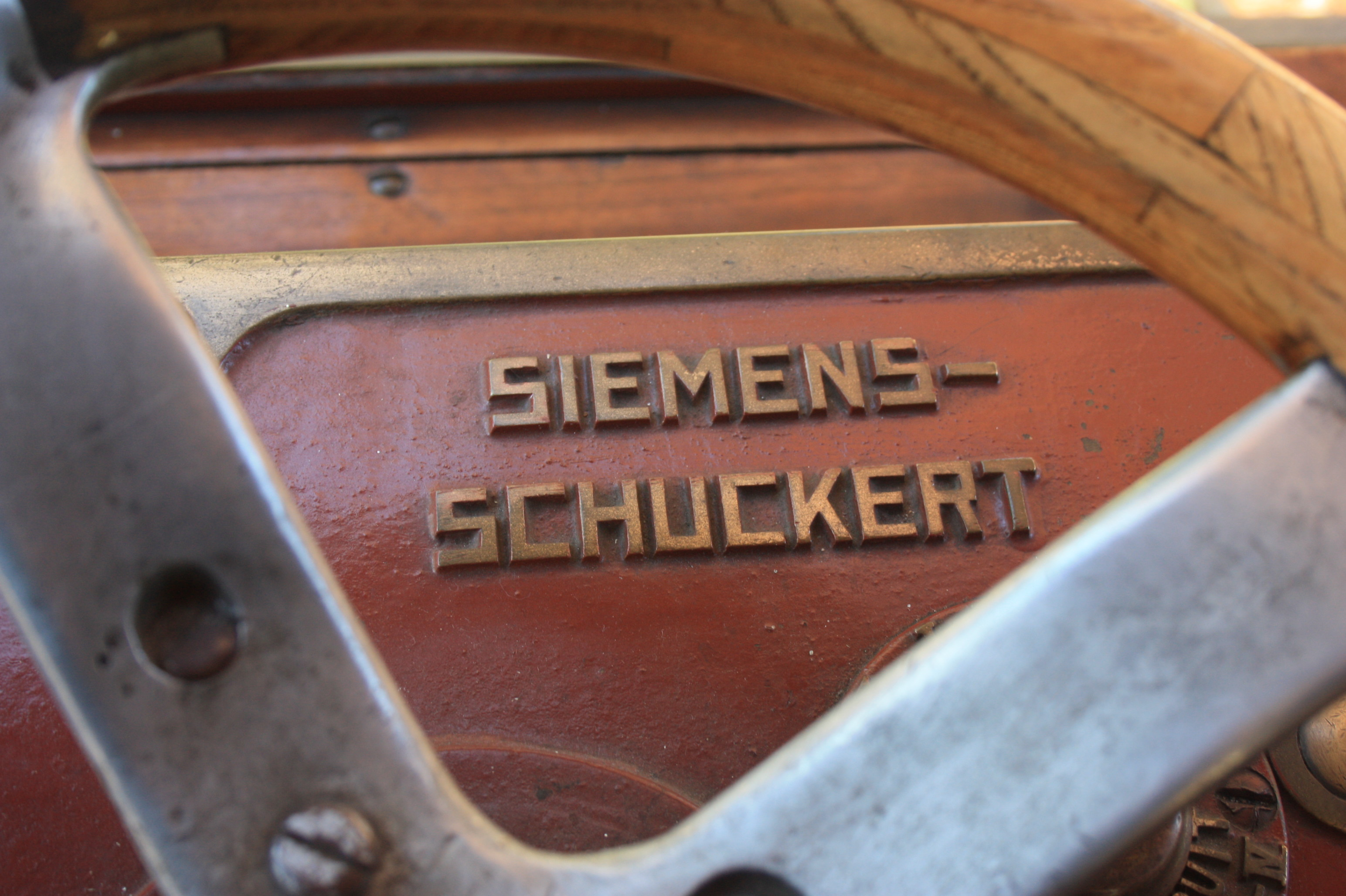 Siemens-Schuckert name on a tram steering wheel